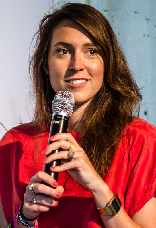 Courtney Boyd Myers - TOA Berlin Day 1 - Dan Taylor - Heisenberg Media